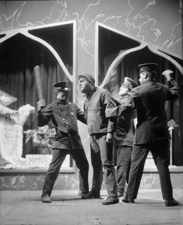 Louis Wolheim (center) as Robert 'Yank' Smith in the Eugene O'Neill's play The Hairy Ape, Broadway, Provincetown Theatre (opening : March 9, 1922)